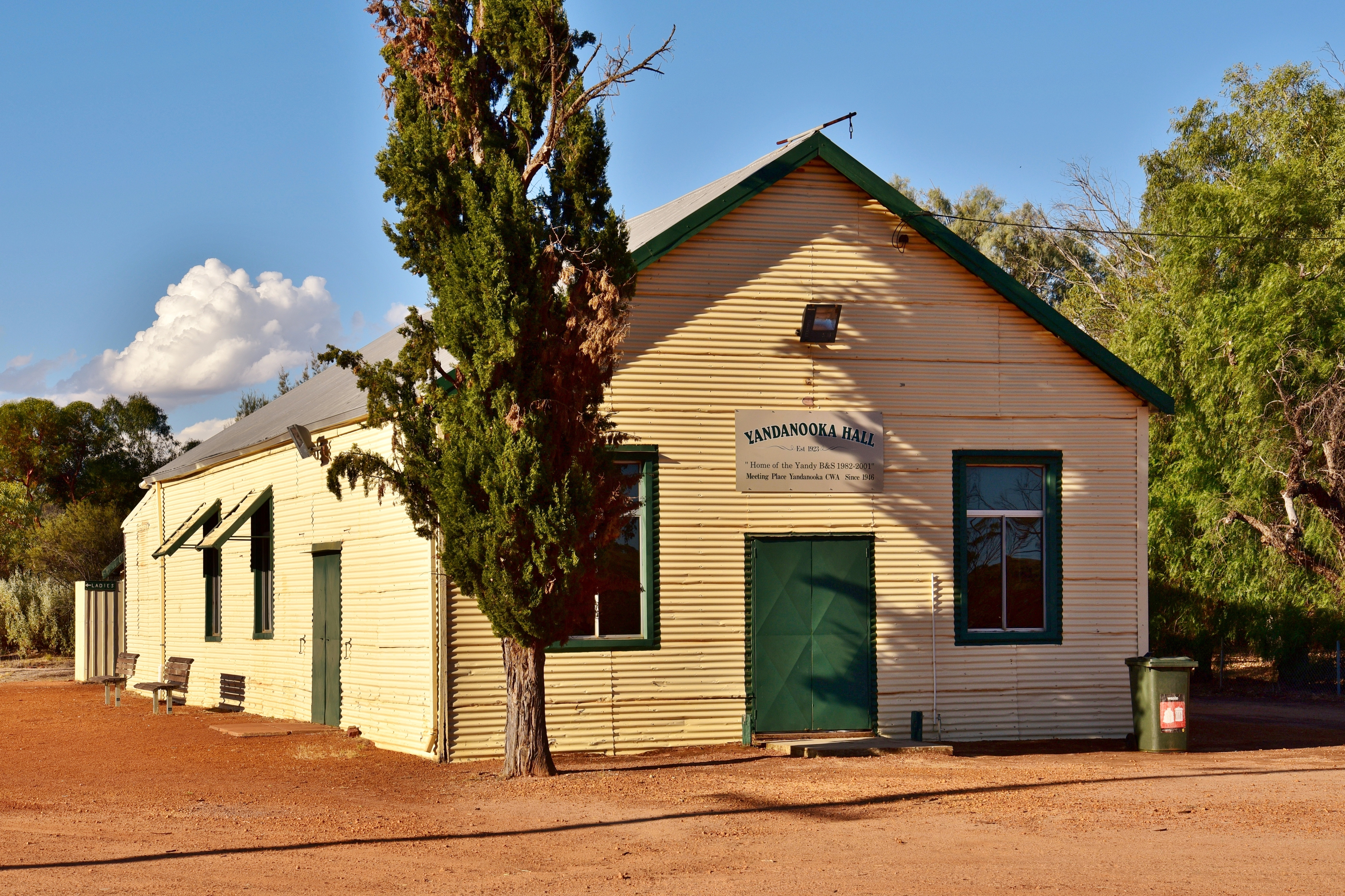 View of Yandanooka Hall, Yandanooka, Western Australia